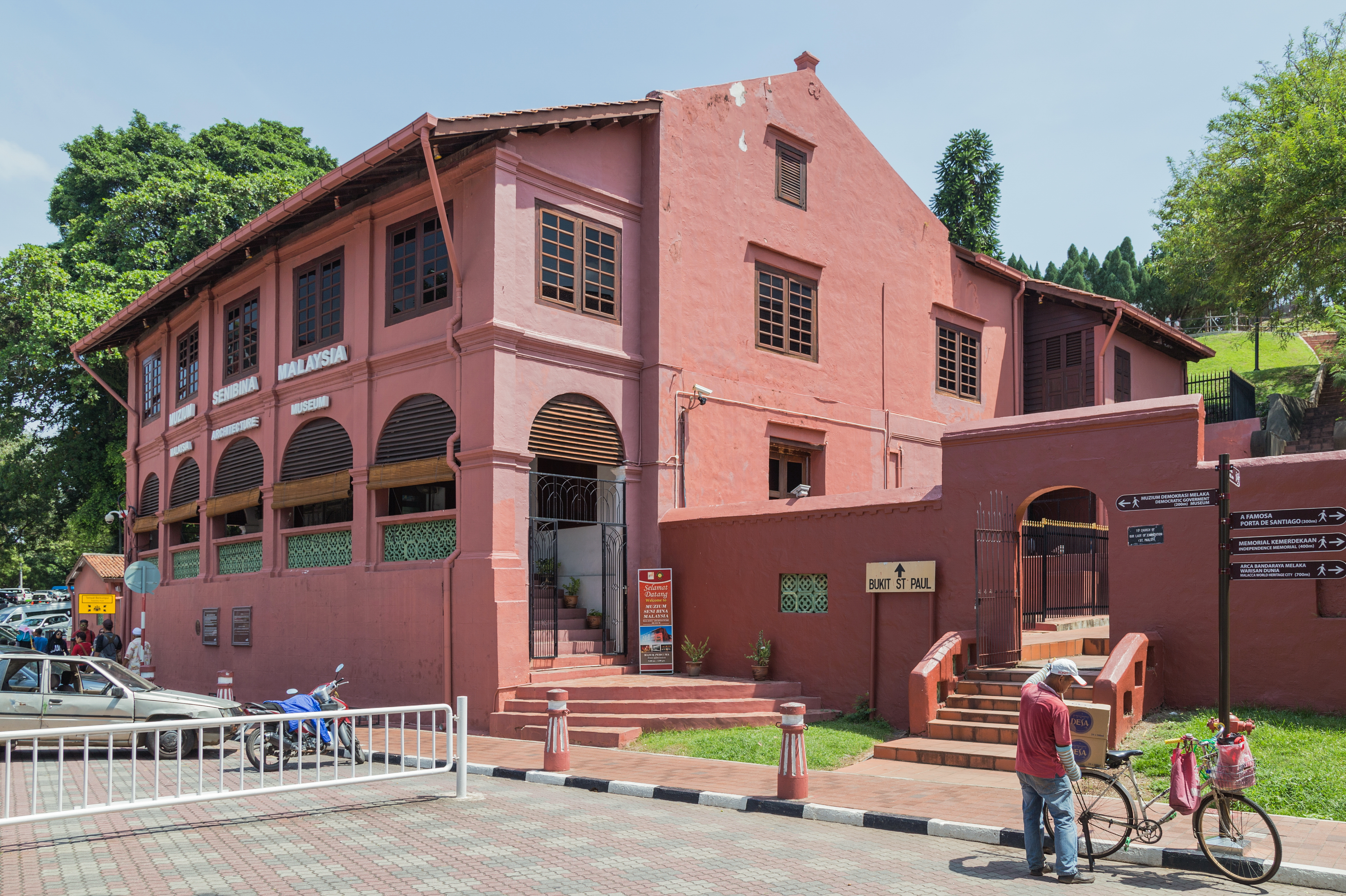 Malaysia Architecture Museum. Malacca City, Malacca, Malaysia.